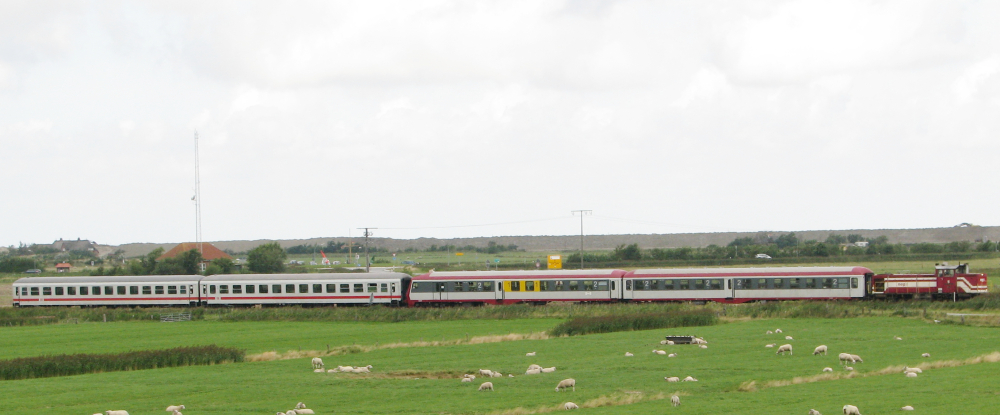 Train of Norddeutsche Eisenbahngesellschaft (neg) on track between Dagebüll and Niebüll, Germany